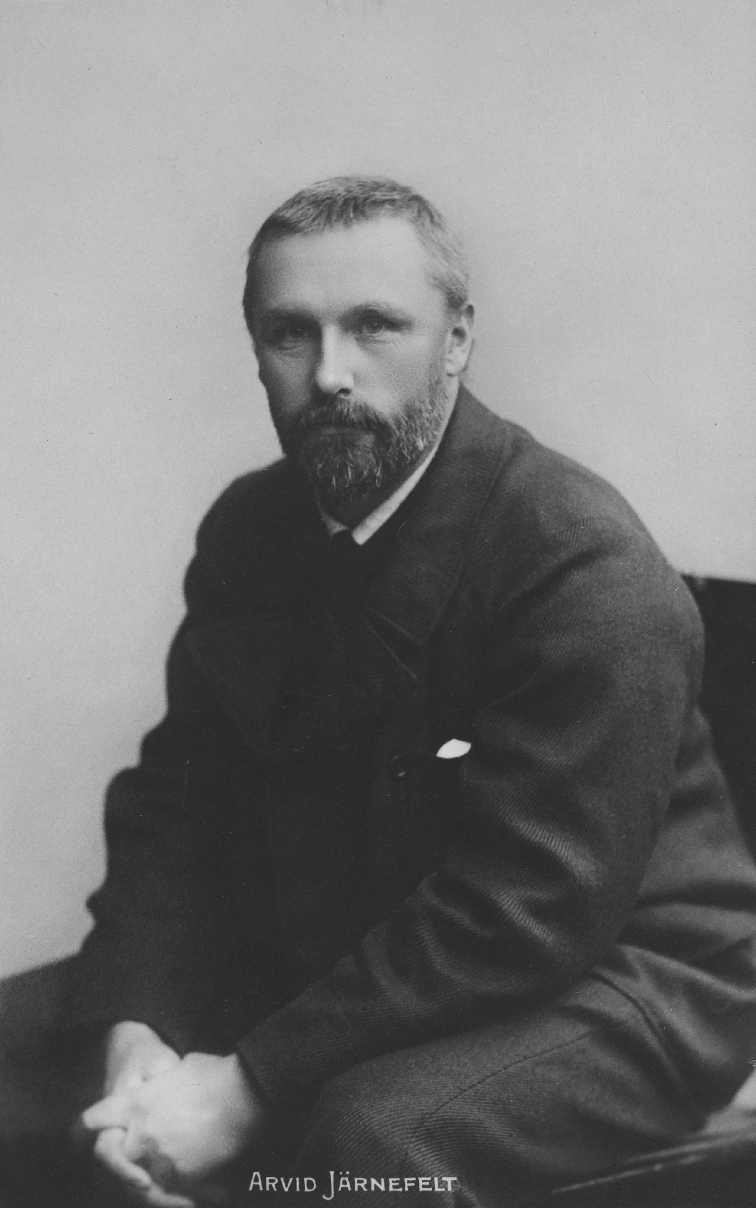 Arvid Järnefelt, Finnish writer